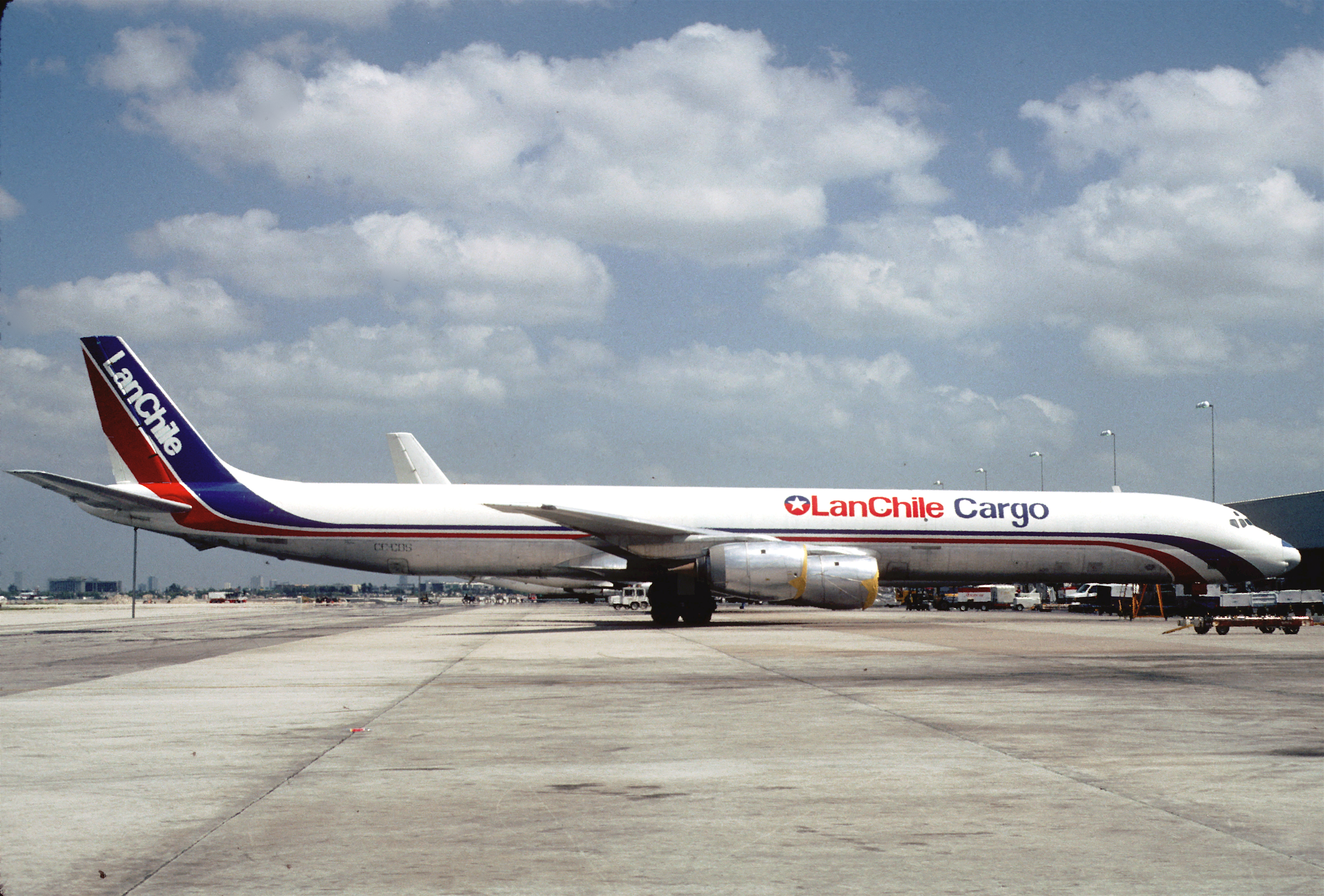 LAN Chile Cargo DC-8-71F; CC-CDS, April 1995/DCX